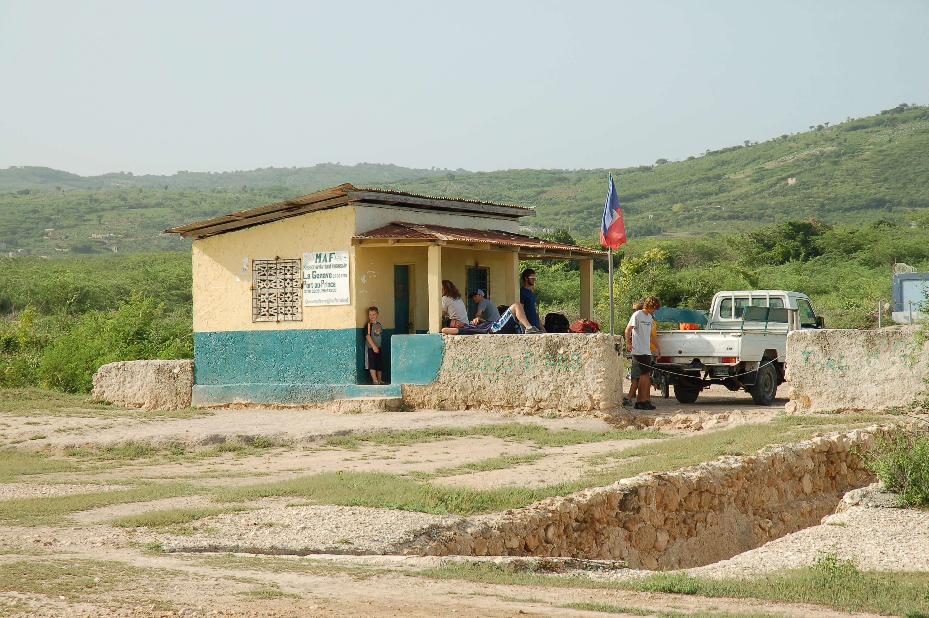 This is the only building at the La Gonave Airstrip in Anse à Galets, La Gonave, Haiti.